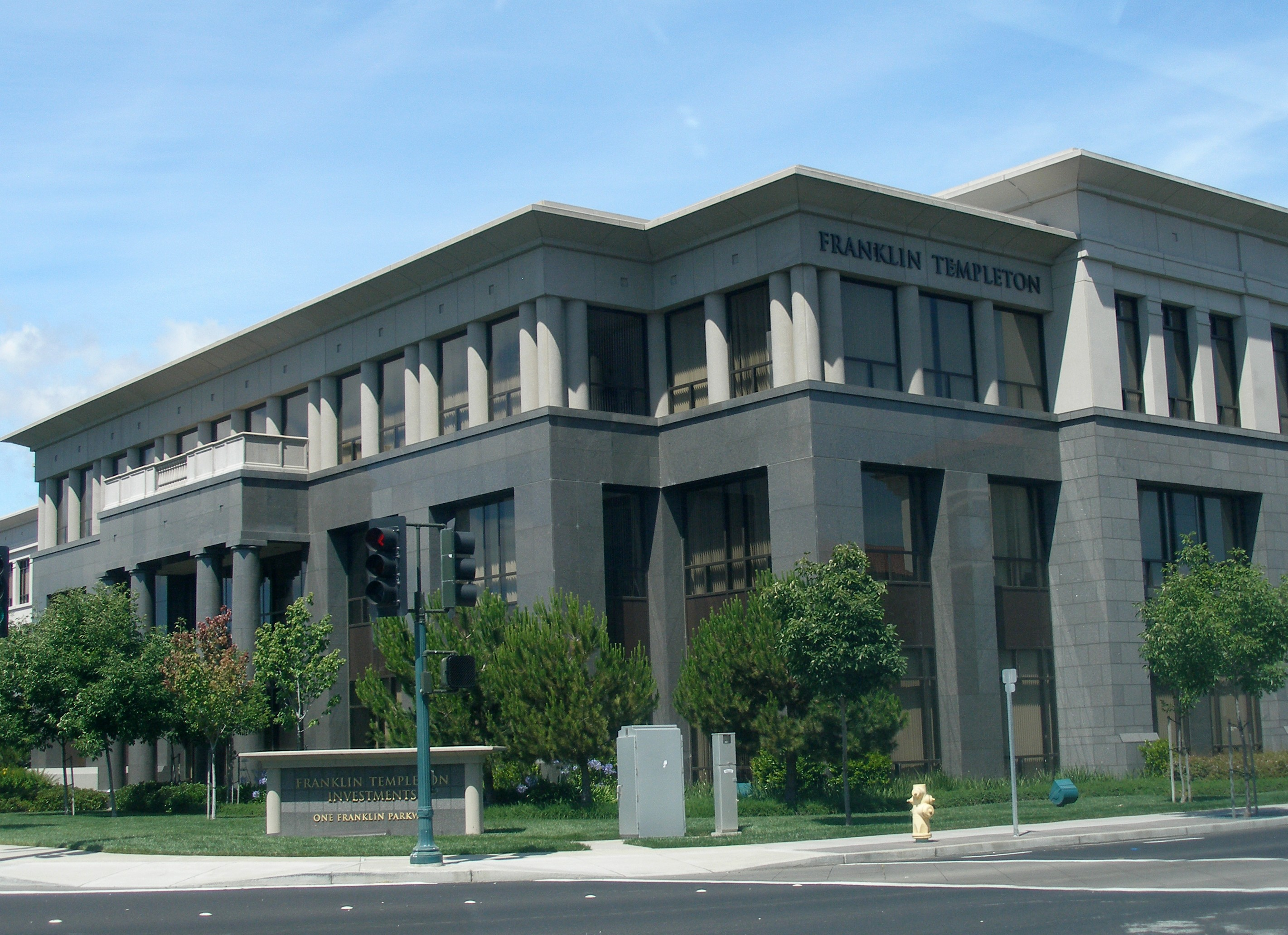 The headquarters of Franklin Templeton Investments at One Franklin Parkway, San Mateo, California. Photographed on June 29, en:2007 by user Coolcaesar.